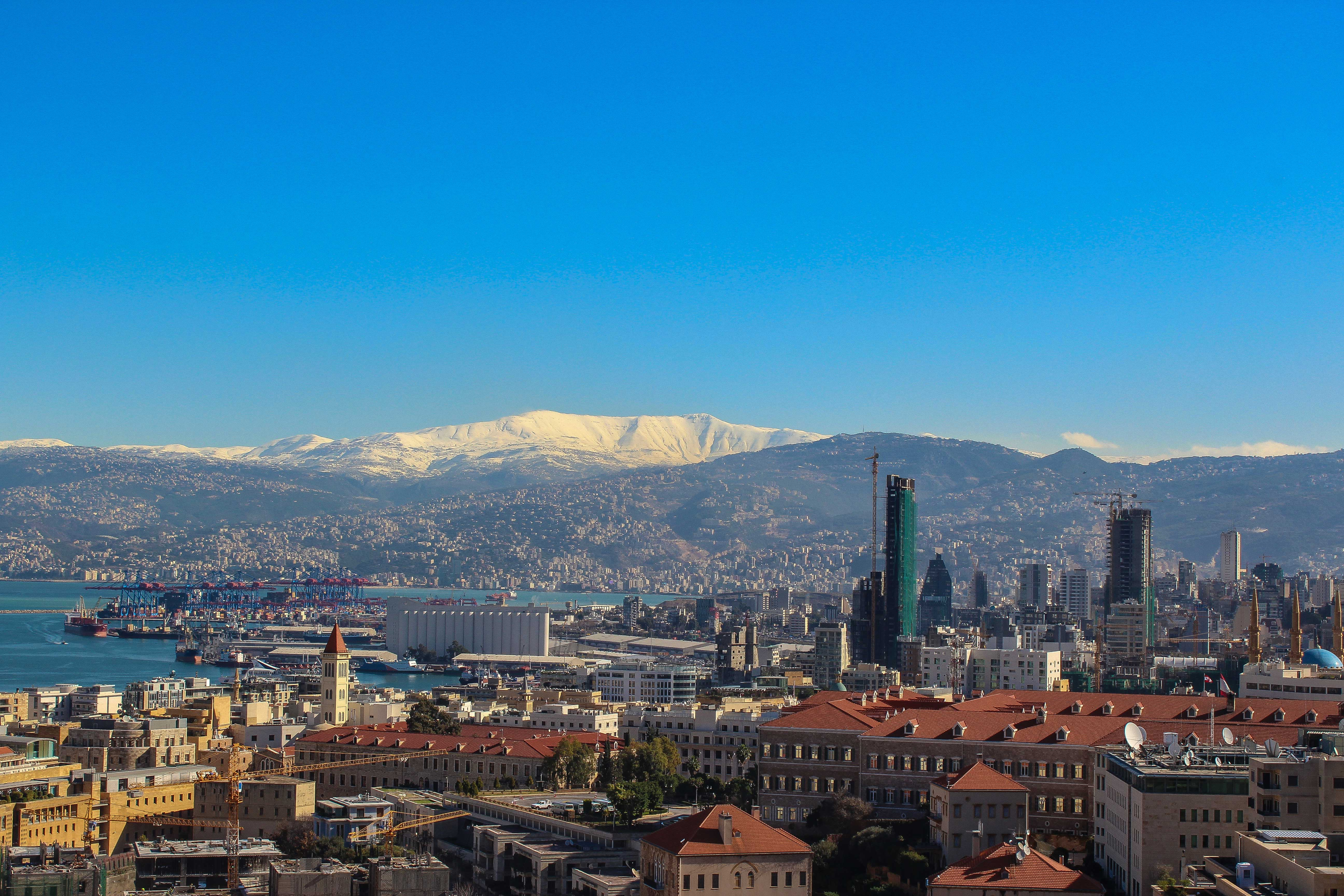 View of the Saint George Bay, and snow-capped Mount Sannine from a tower in the Beirut Central District